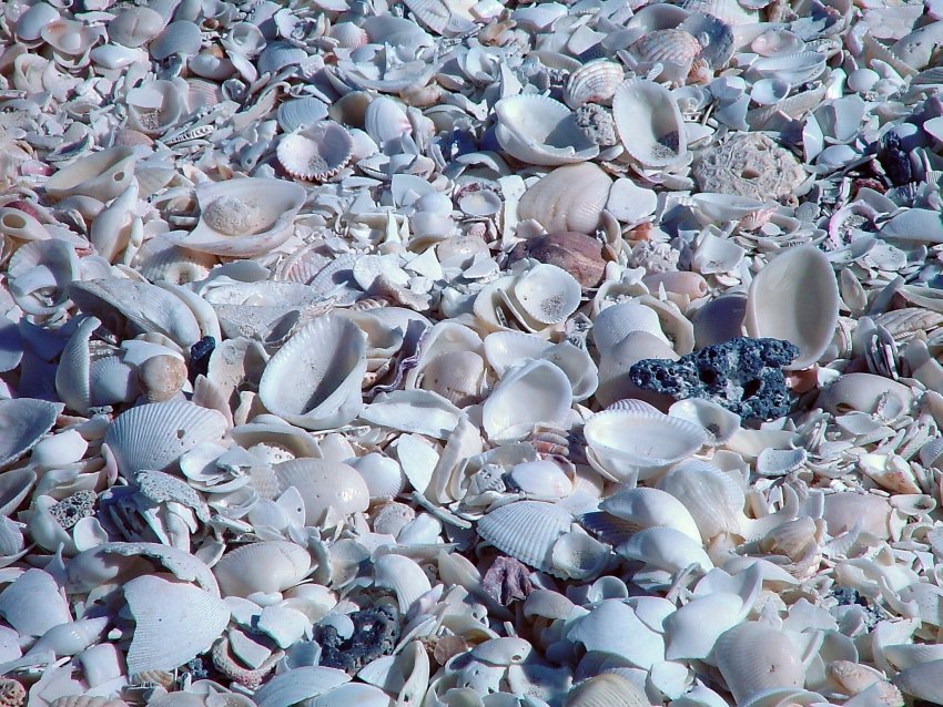 80 mile beach shells 29-4-2004